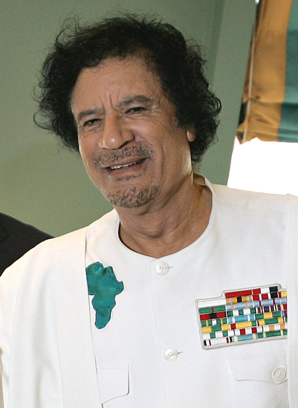 The leader de facto of Libya, Muammar al-Gaddafi.